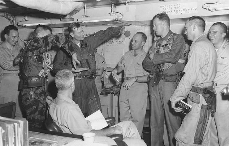 Lieutenant (Junior Grade) Charles W. Hartman (left, in camouflaged flight suit), and Lieutenant Commander Edwin A. Greathouse show Rear Admiral William F. Bringle (seated) how two MiG-17 jet fighters were shot down over North Vietnam by propeller-driven A-1 "Skyraiders" of Attack Squadron 25 (VA-25) over North Vietnam, 20 June 1965. Lt(JG) Hartman was credited with one of the MiGs, and Lieutenant Clinton B. Johnson was credited with the other. LCdr. Greathouse was the mission leader. Note .38 caliber revolvers worn by several of those present.